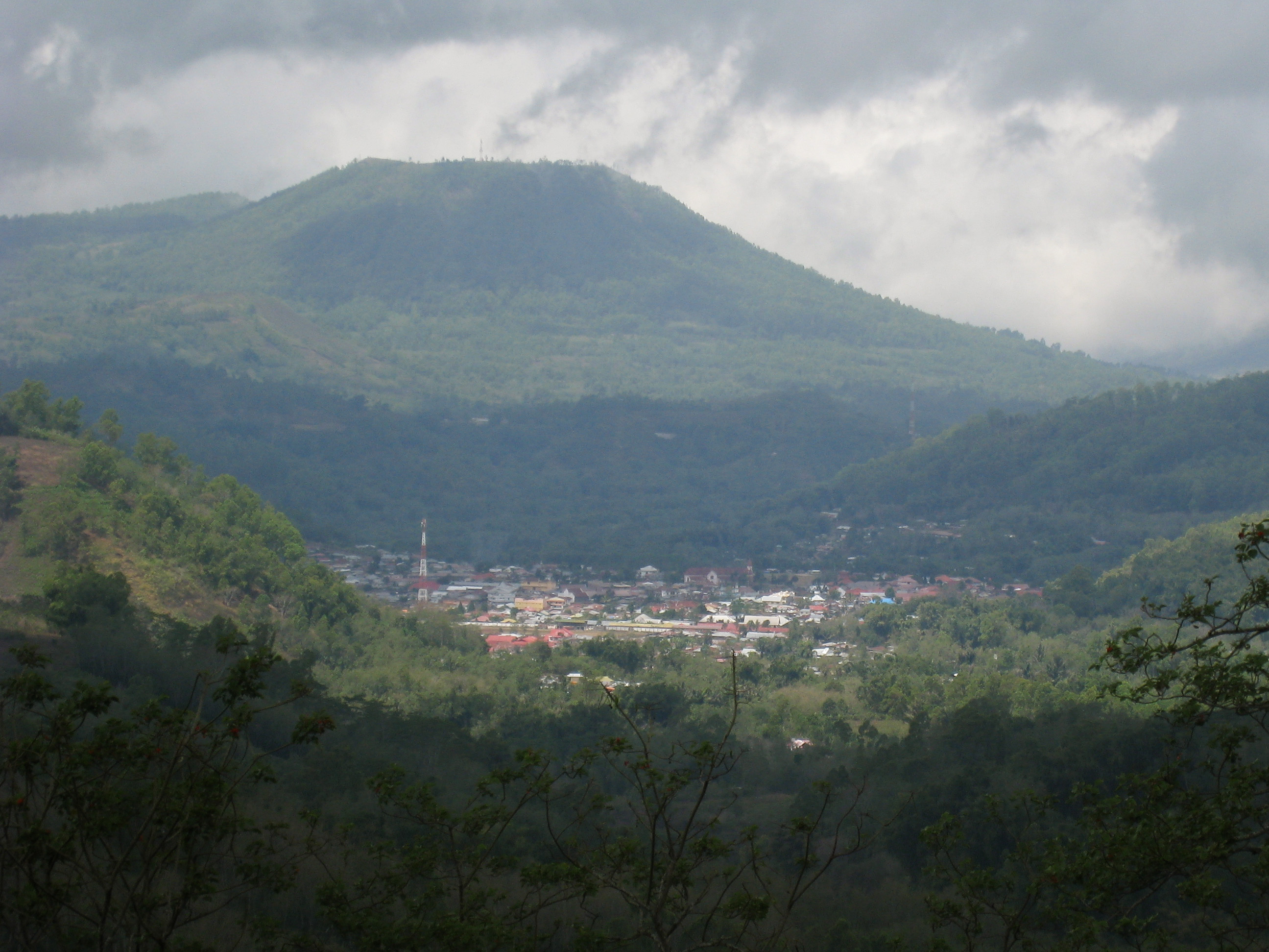 The little town of Bajawa, surrounded by by volcanos and rainforest.